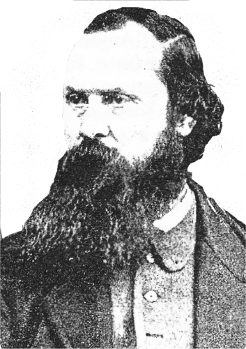 Picture of Peter Davidson